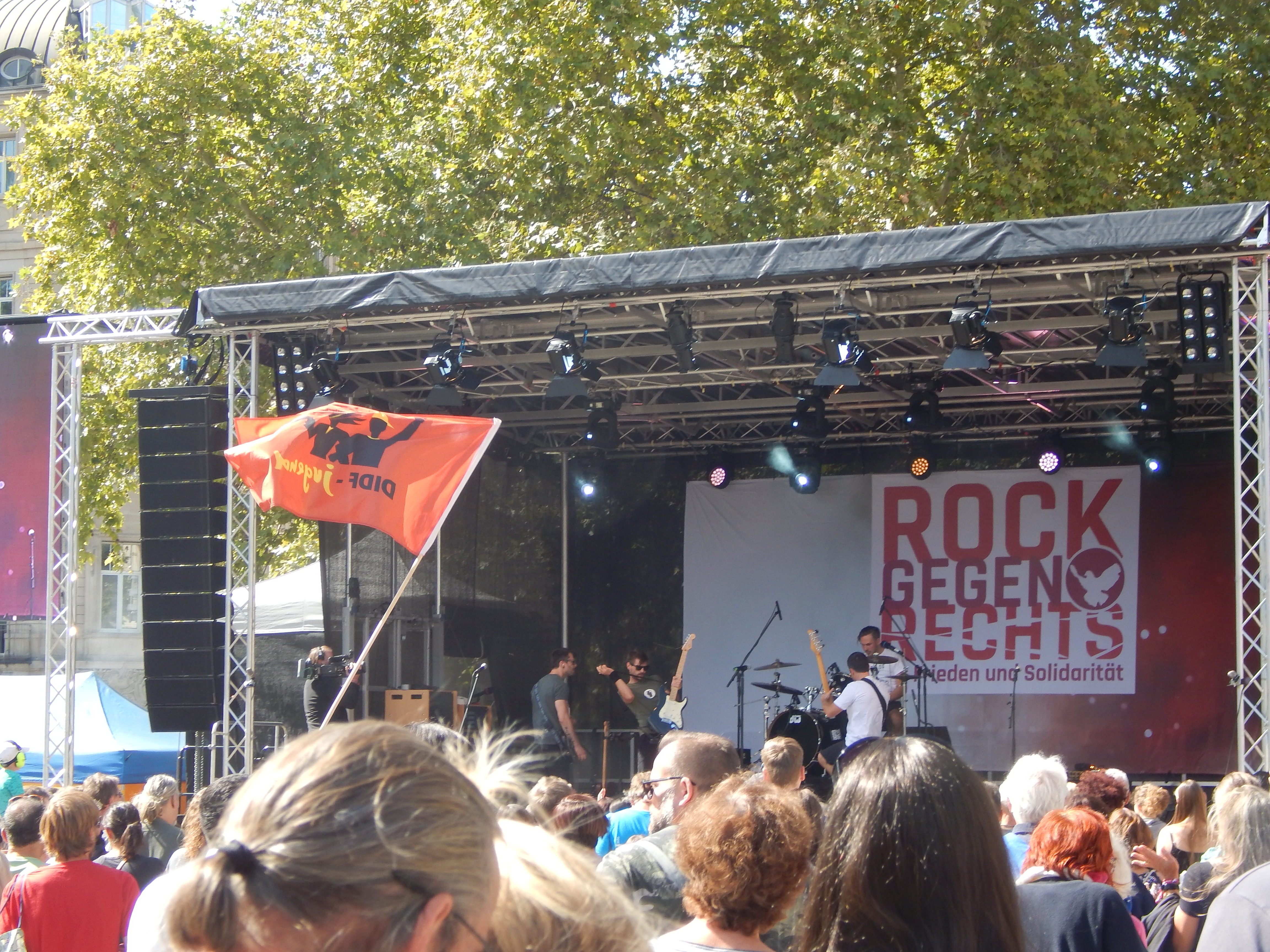 Rock gegen Rechts in Frankfurt/Main, 1st september 2018